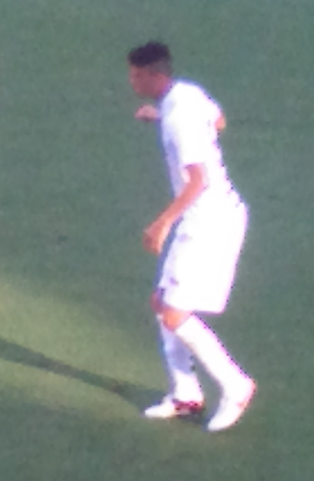 Gustavo Henrique playing for Santos against São Bernardo on 30 January 2016, at the Vila Belmiro.